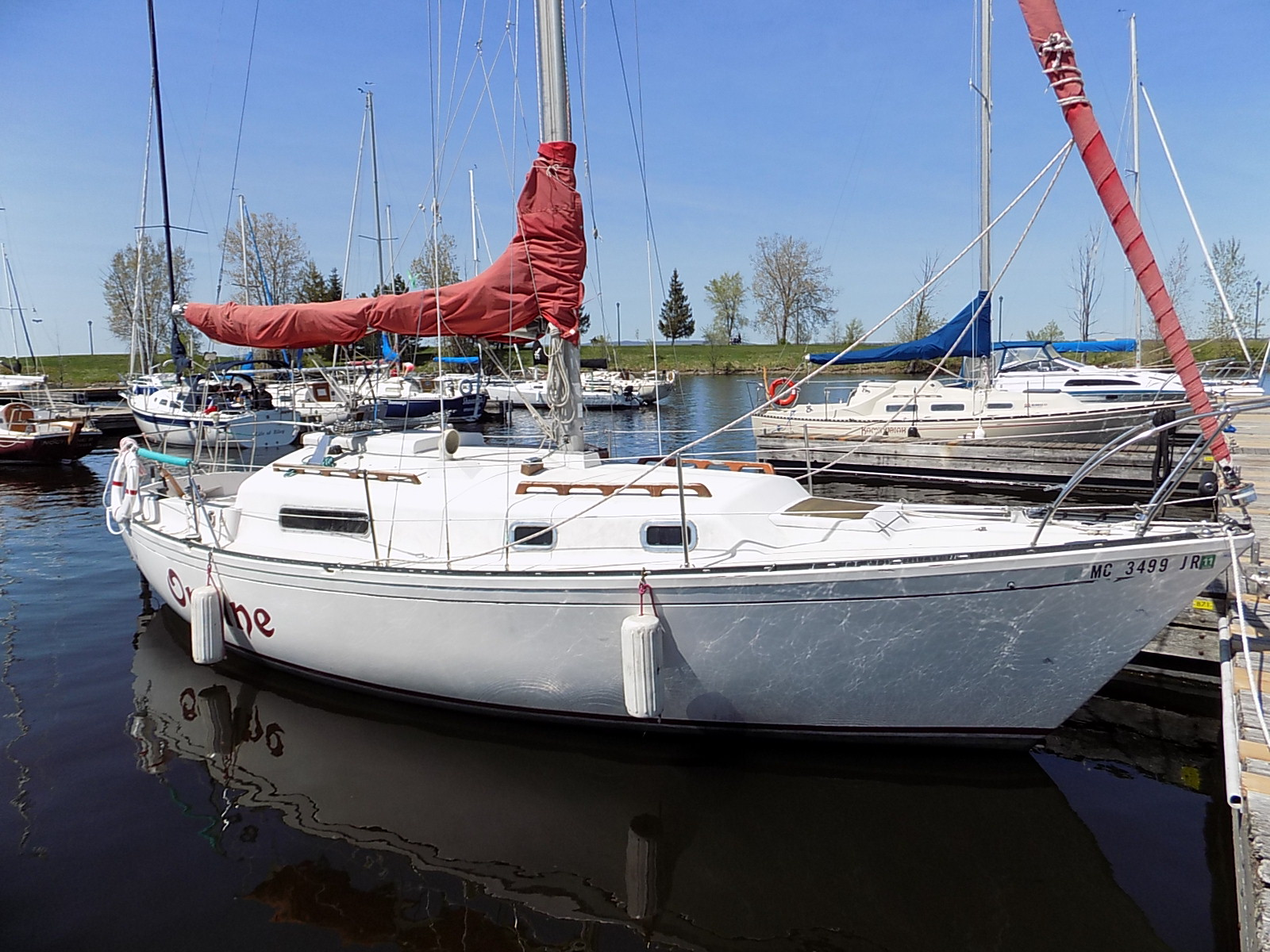 An Aloha 28 sailboat named Ondine.